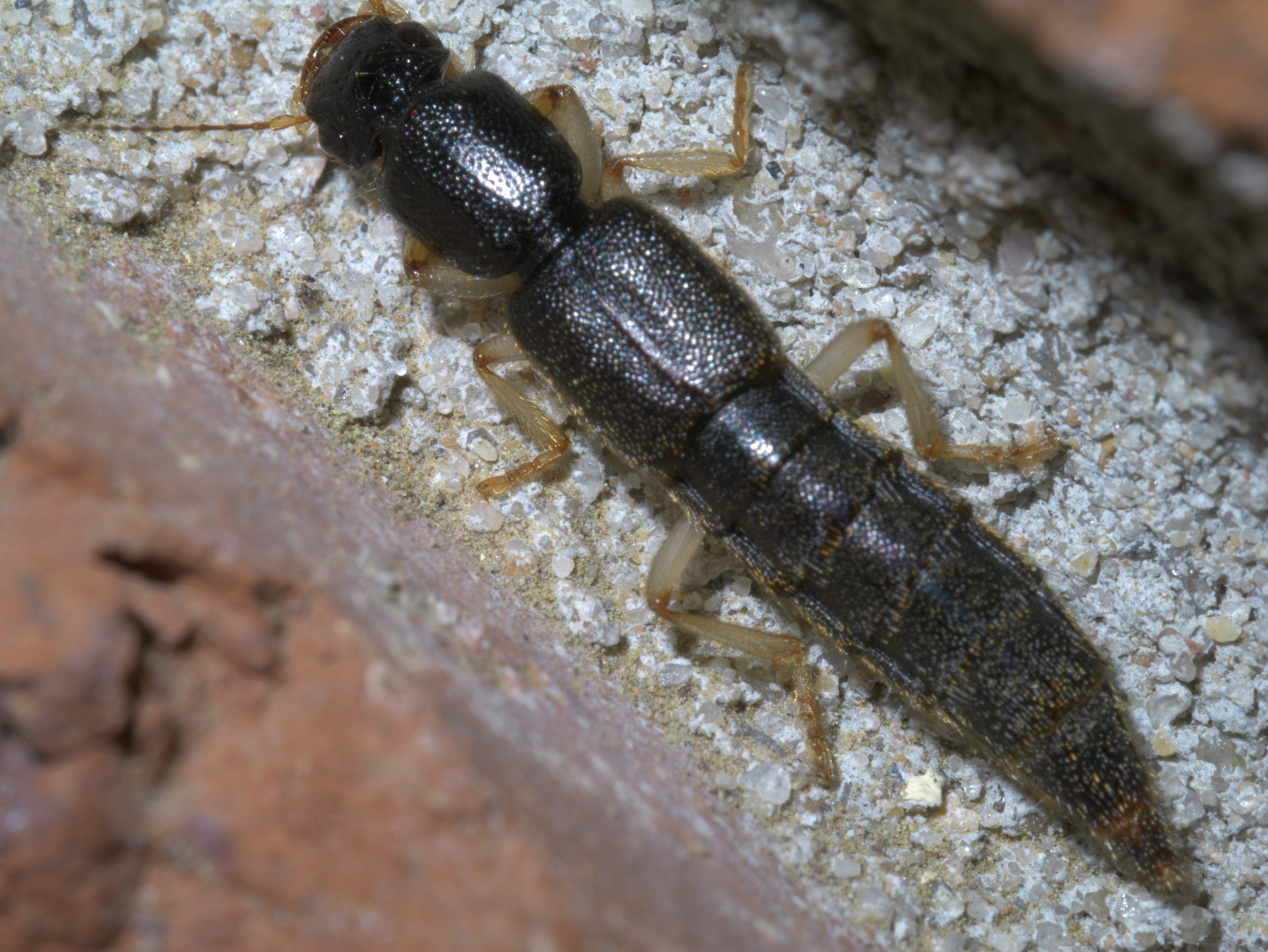 Pinophilus, Family: Rove Beetles, Size: 16.1 mm